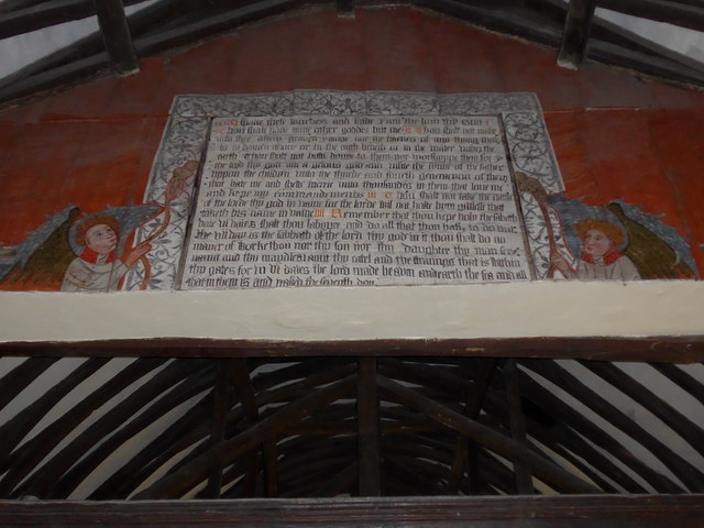 Inside St. John The Baptist, Little Somerford (E)